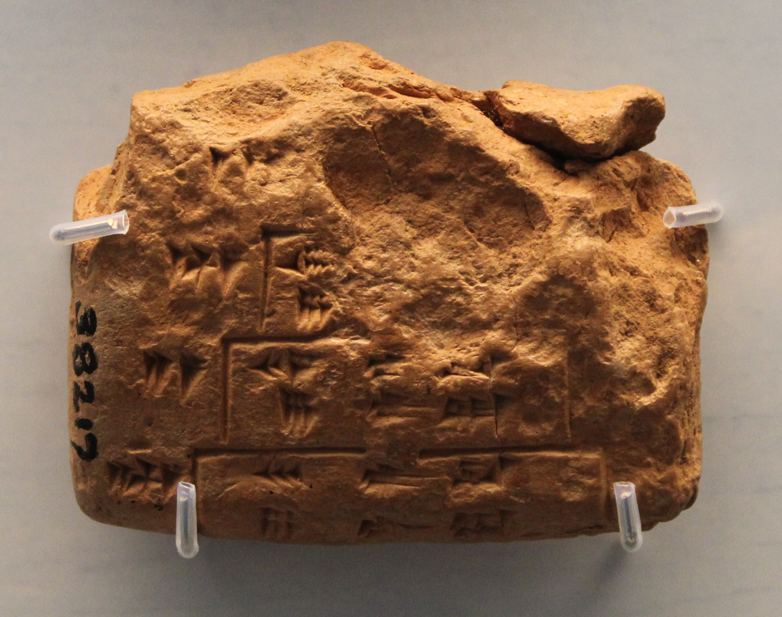 Clay cuneiform tablet: drawing and measurements of the ziggurat or temple tower. Cuneiform numbers on each level. Probably from Babylone. Neo-Babylonian period, c. 600-400 BC.